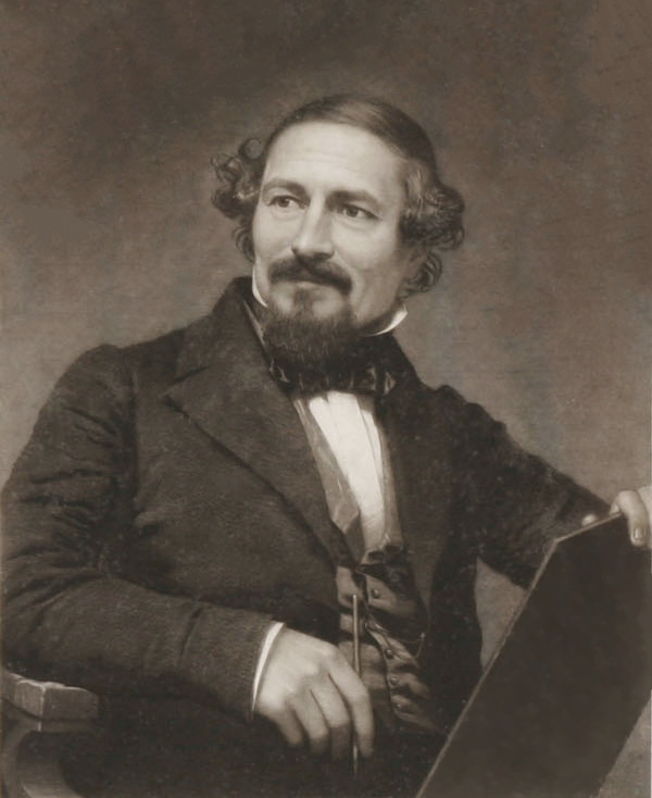 Engraving of John Sartain and signed document from Pa. Arts Academy, framed, 8 1/4" x 5 1/2".